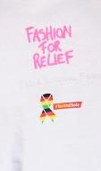 T-shirt (back print)